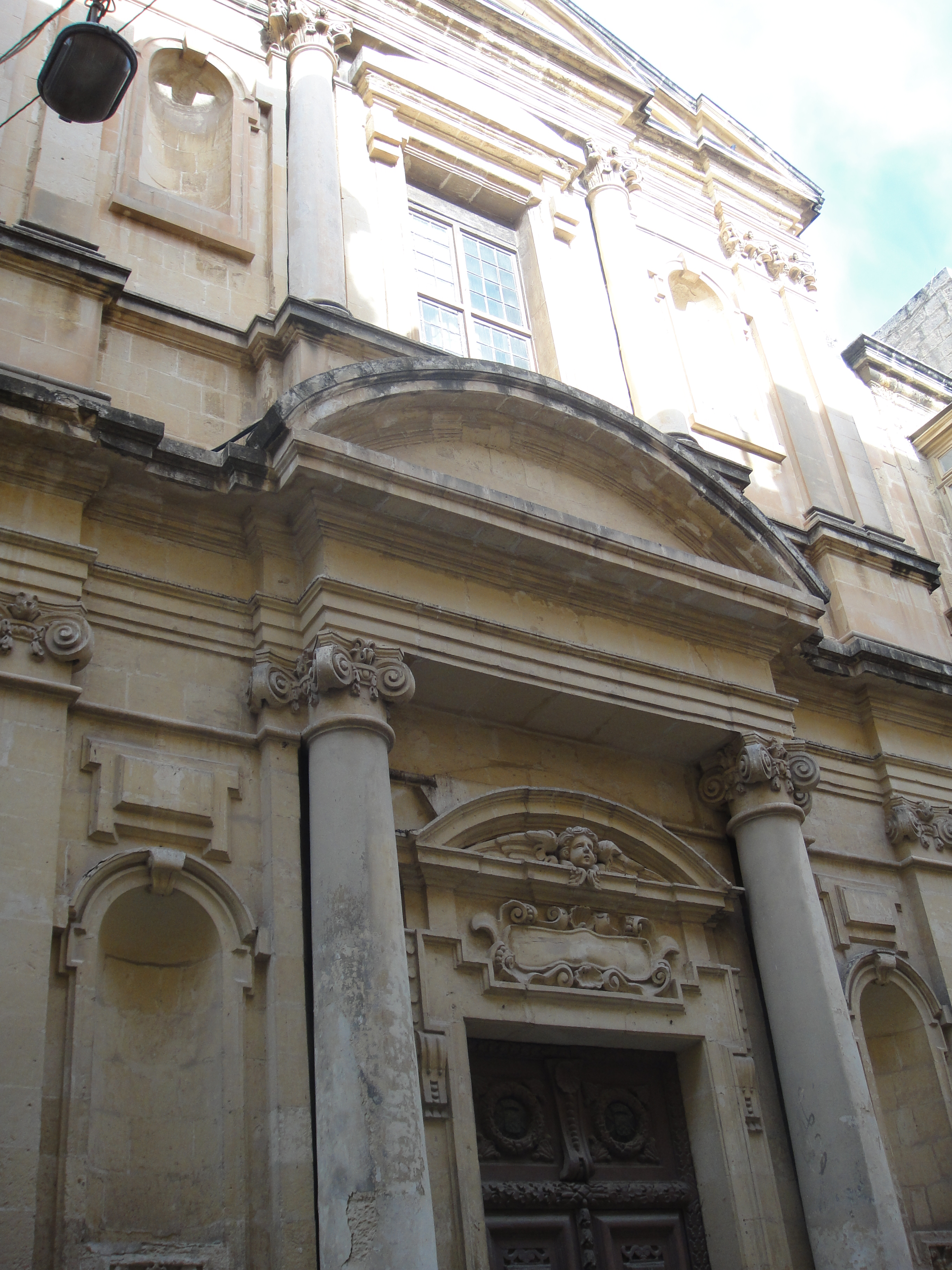 Façade of the church.